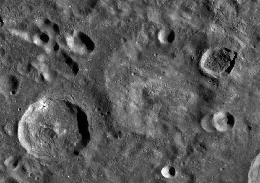 LRO image of Gerasimovich crater (right of center), Gerasimovich R (below left of center), and Gerasimovich D (above right, on rim of Gerasimovich), on the far side of the moon, from the Wide Angle Camera (WAC).